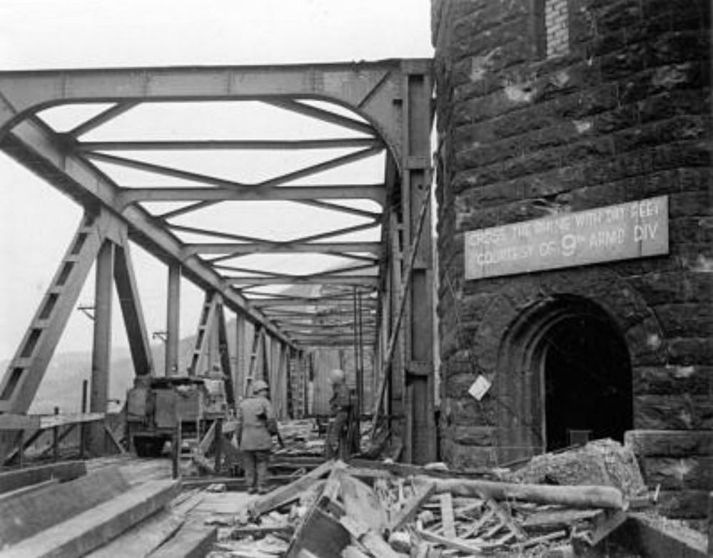 CROSS THE RHINE WITH DRY FEET COURTESY OF 9TH ARM'D DIV-LUDENDORFF BRIDGE POSTED SIGN